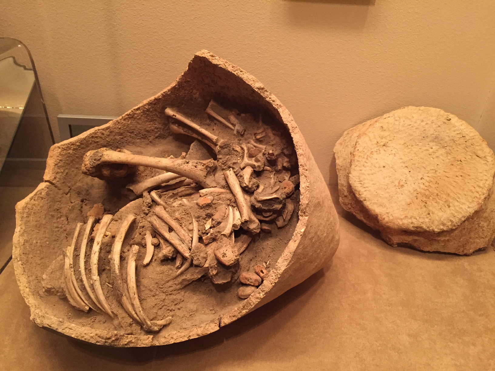 Infant burial in jars appeared in Jordan in the Chalcolithic, where the corpse would be placed in the fetal position inside a jar after breaking its rim, then buried under the floor of a house. This jar was found in Tulaylat al-Ghassul, northeast of the dead sea; preserved in the museum of Jordan.